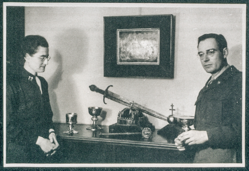 Edith_Standen_and_Joe_Kelleher,_agents_of_the_MFAA_with_the_crown,_beginning_of_1946label QS:Len,"Edith_Standen_and_Joe_Kelleher,_agents_of_the_MFAA_with_the_crown,_beginning_of_1946" label QS:Lhu,"Edith_Standen_és_Joe_Kelleher,_a szövetségesek műkincsmentő programjának munkatársai a Szent Koronával"